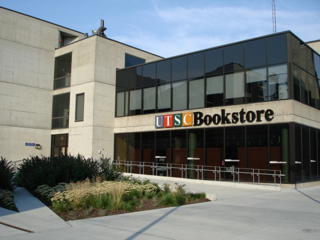 Author: SM108 Source: My Sony DSC-W100